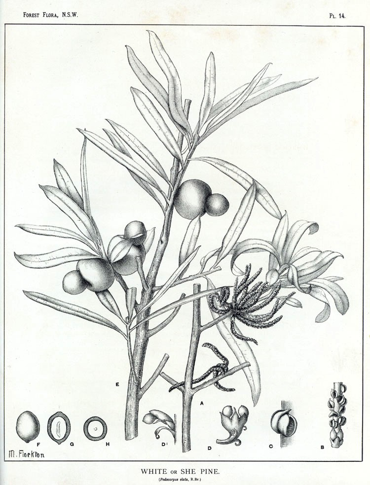 Podocarpus elatus, R.Br., Plate 14 from "Forest Flora of New South Wales" by Joseph Henry Maiden (1859–1925)